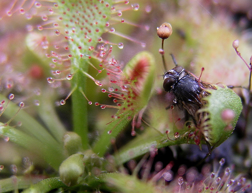 Sundew with captured fly.